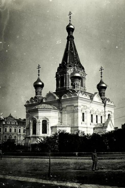 St. Nicholas Orthodox Church (1915)